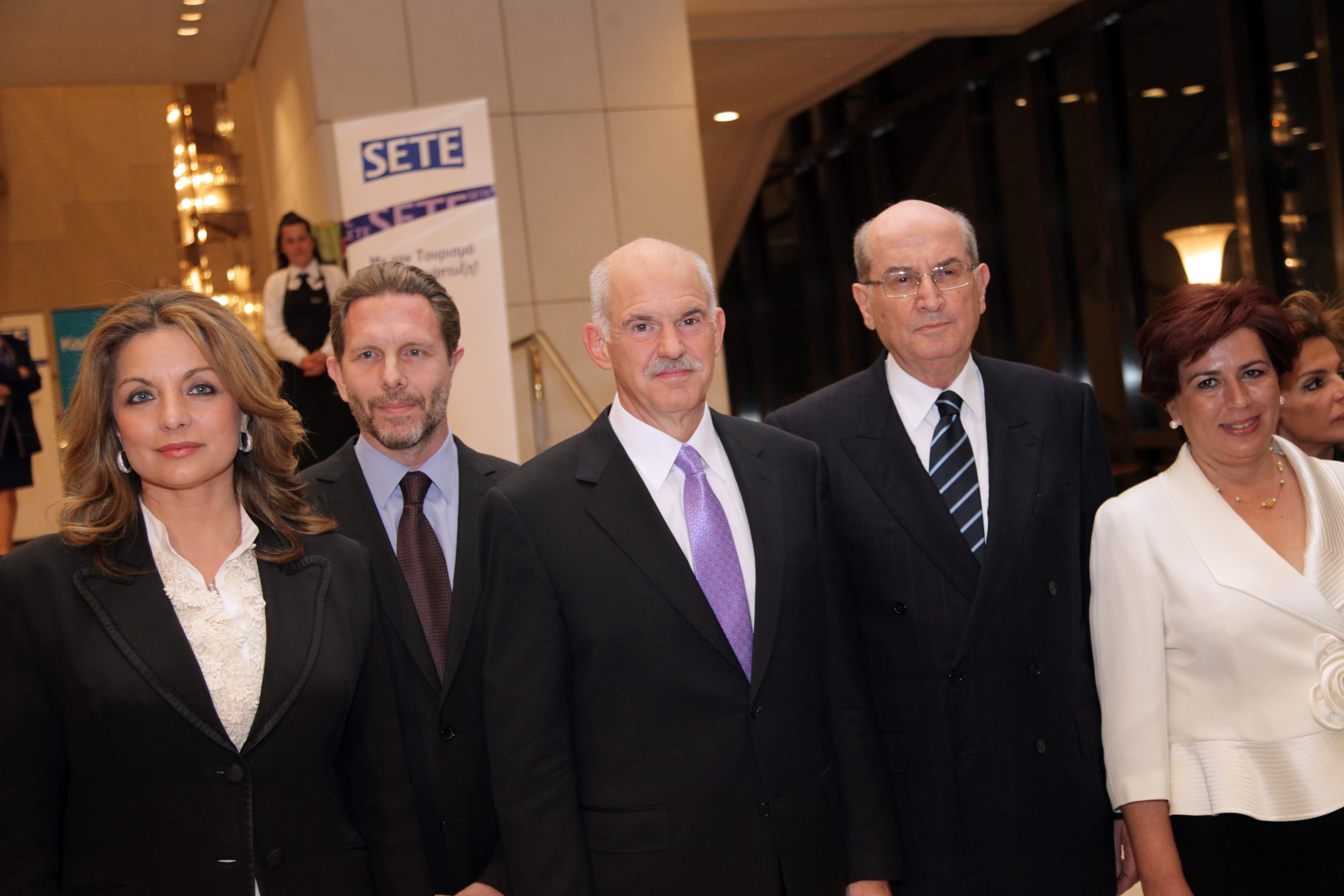 Delegation of Prime minister George Papandreou to the 18th Annual General Meeting of the Association of Greek Tourism Enterprises (SETE) in April 2010